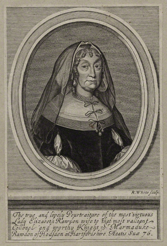 Portrait of Elizabeth Roydon, wife of Marmaduke Roydon (1583 – 1646), English merchant.